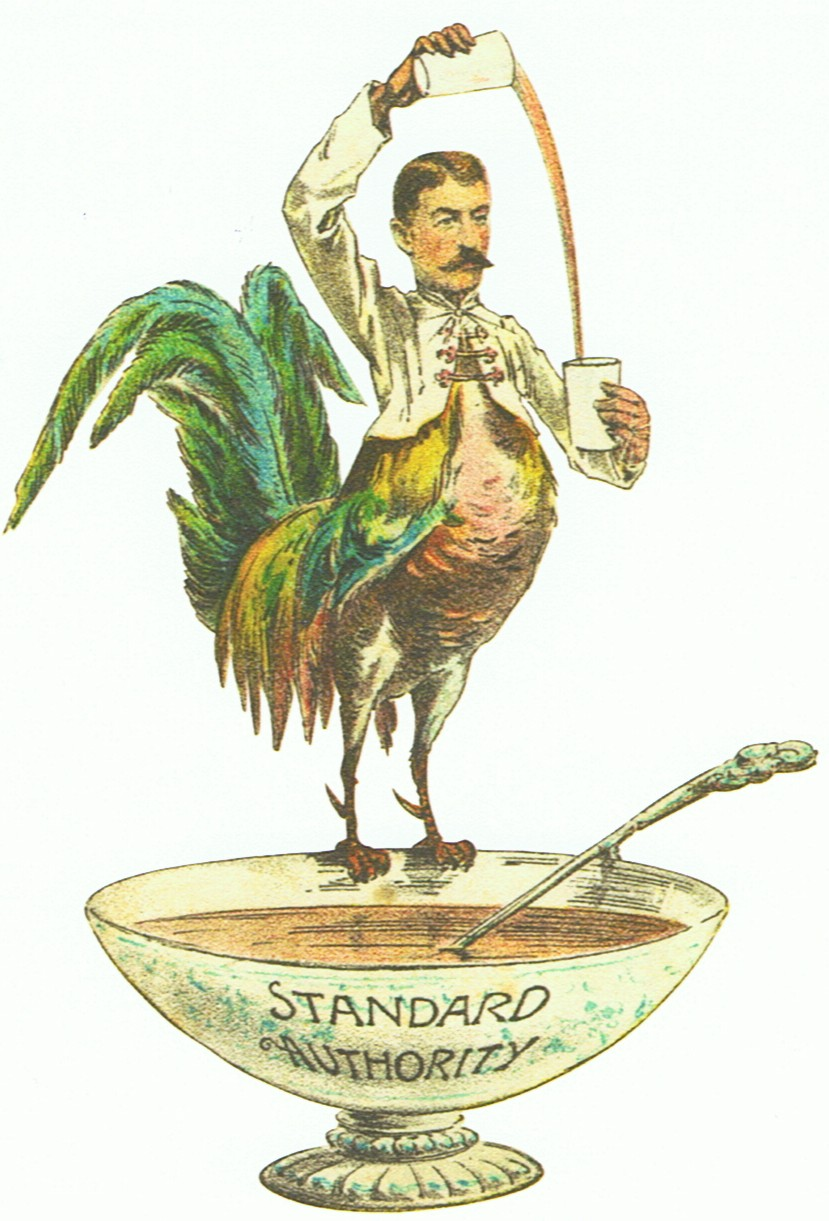 W. T. Boothby depicted as a rooster (cock) with colorful feathers, standing on a cup. Title illustration: William Thomas Boothby: Cocktail Boothby's American Bar-Tender". 1st Edition, San Francisco 1891. The Illustration was taken from a reproduction of a 1st edition copy, owned by the California Historical Society, San Francisco, forwarded and edited by F. Maytag and David Burkhart, published 2009 by Anchor Distilling, San Francisco, ISBN 978-0-9822473-3-4.